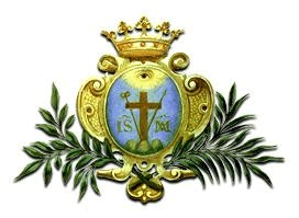 The officical coat of arms of CSsR.